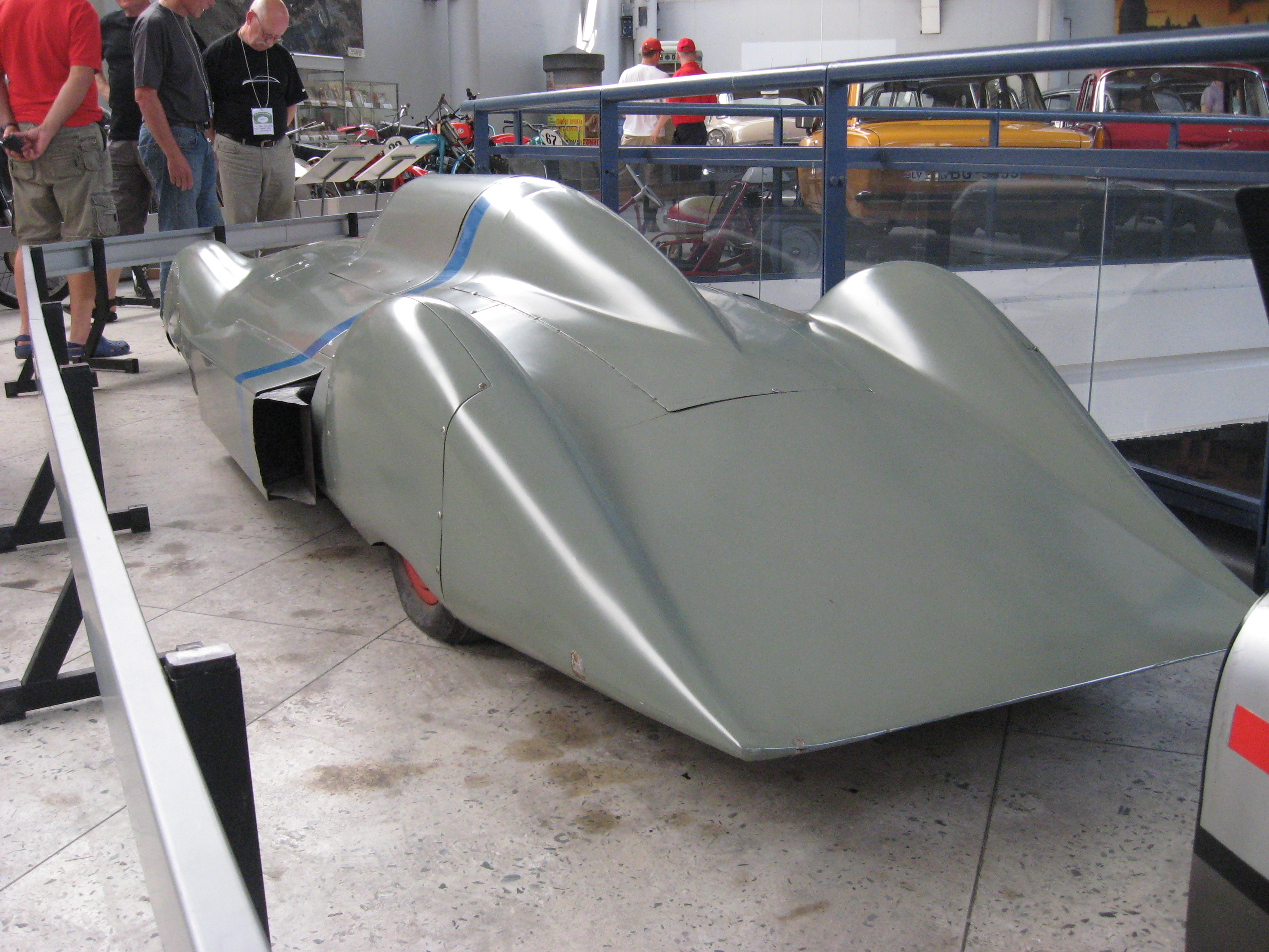 Pioneer 2M at the Riga Auto Museum.